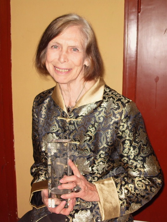 German actress Dagmar von Kurmin in Berlin 2010